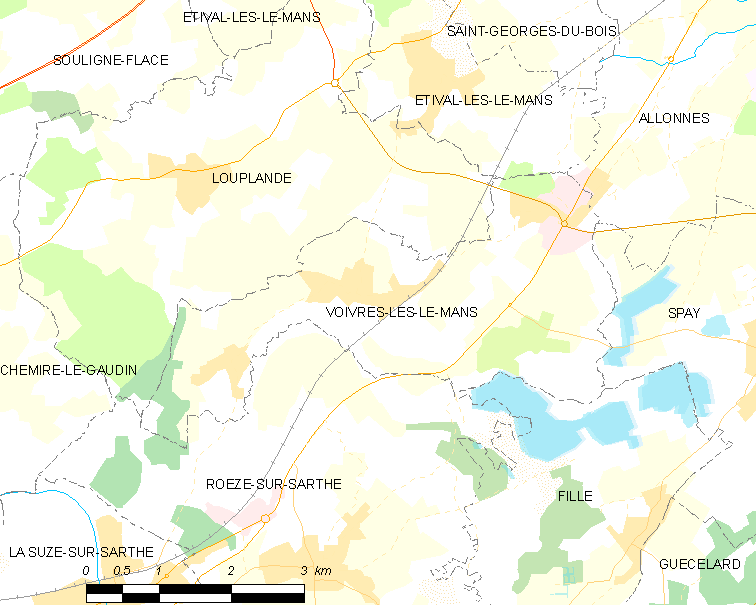 Map of French municipality